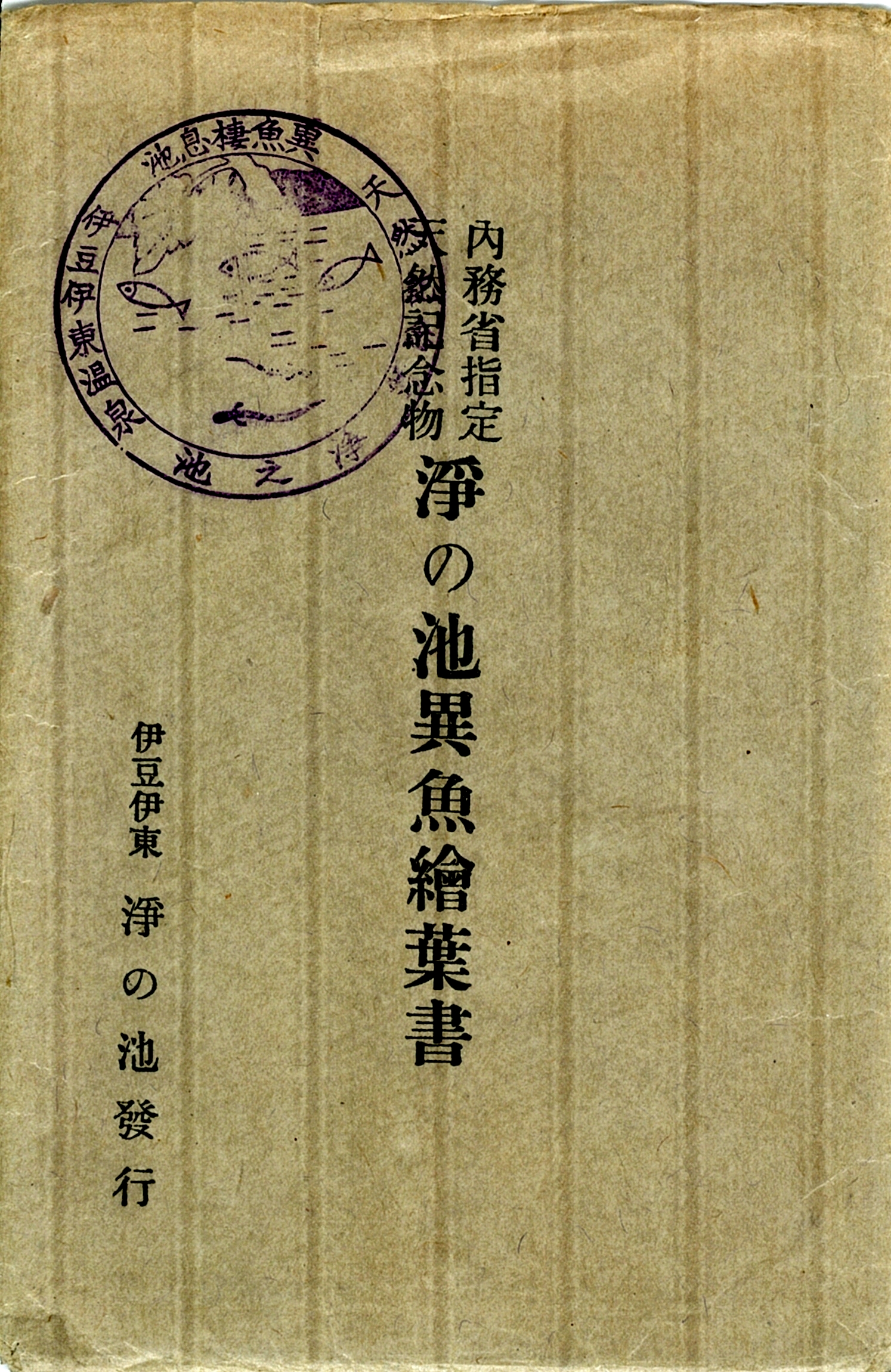 Jono-ike pond Postcards of the package.1936